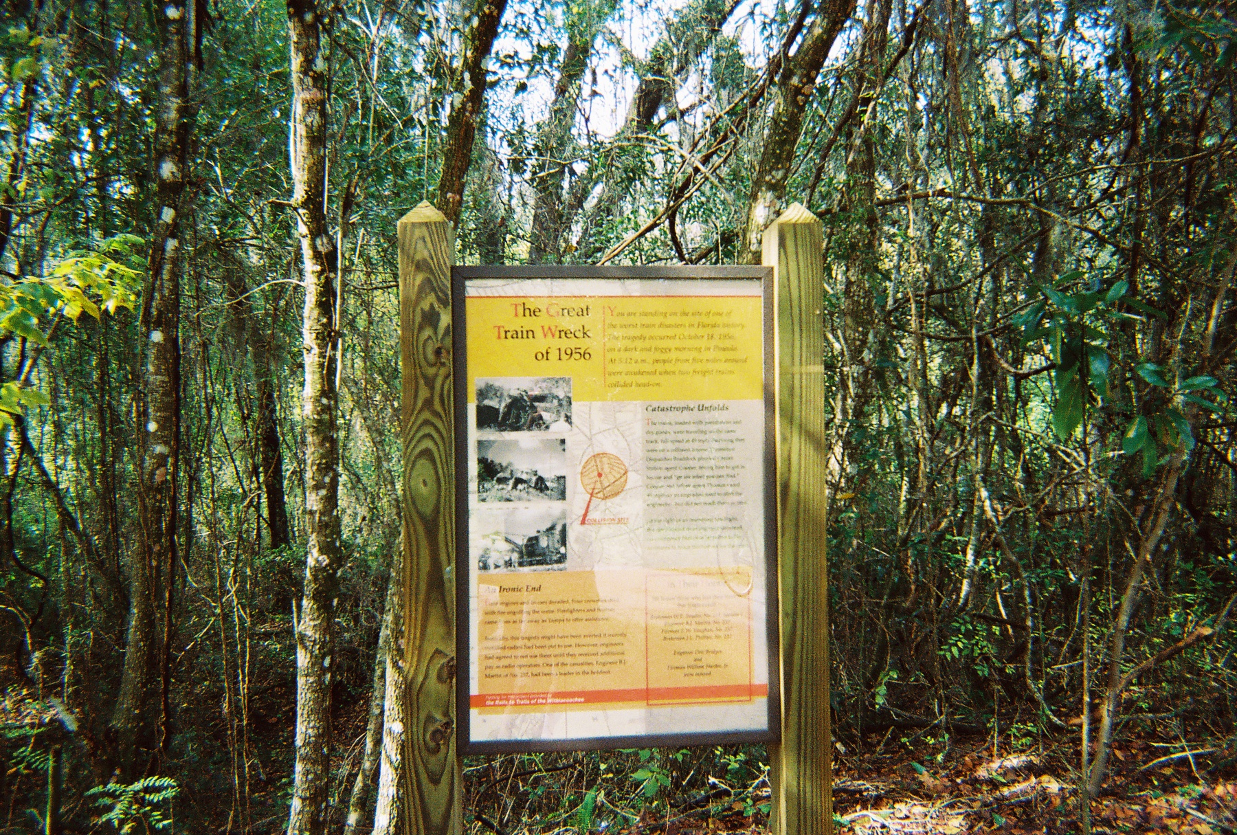 Sign on the Withlacoochee State Trail marking the site of the Atlantic Coast Line Railroad's Great Train Wreck of 1956, which took place in Pineola, Florida, southeast of Floral City, Florida, and the Citrus-Hernando County Line on October 18, 1956. Unfortunatley, my crappy camera didn't get a good shot of the details about the accident, so more resarch about it is necessary. What I can tell you is that there's a sheltered bench next to it.